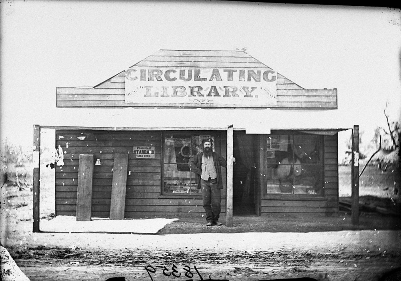 Format: Glass negative Find more detailed information about this photograph: .au/item/itemDetailPaged.aspx?itemID=62250 Search for more great images in the State Library's collections: .au/search/SimpleSearch.aspx From the collection of the State Library of New South Wales